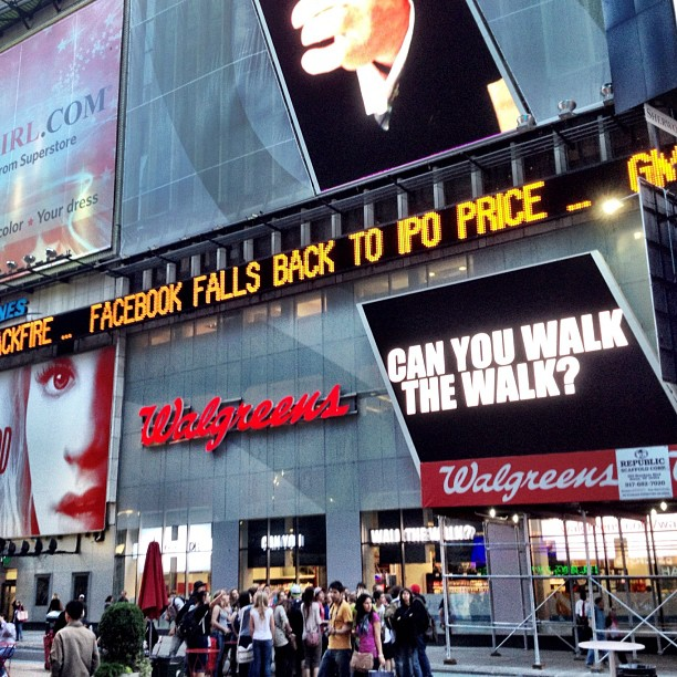 The Dow Jones street-level news ticker as seen in Times Square, New York City.